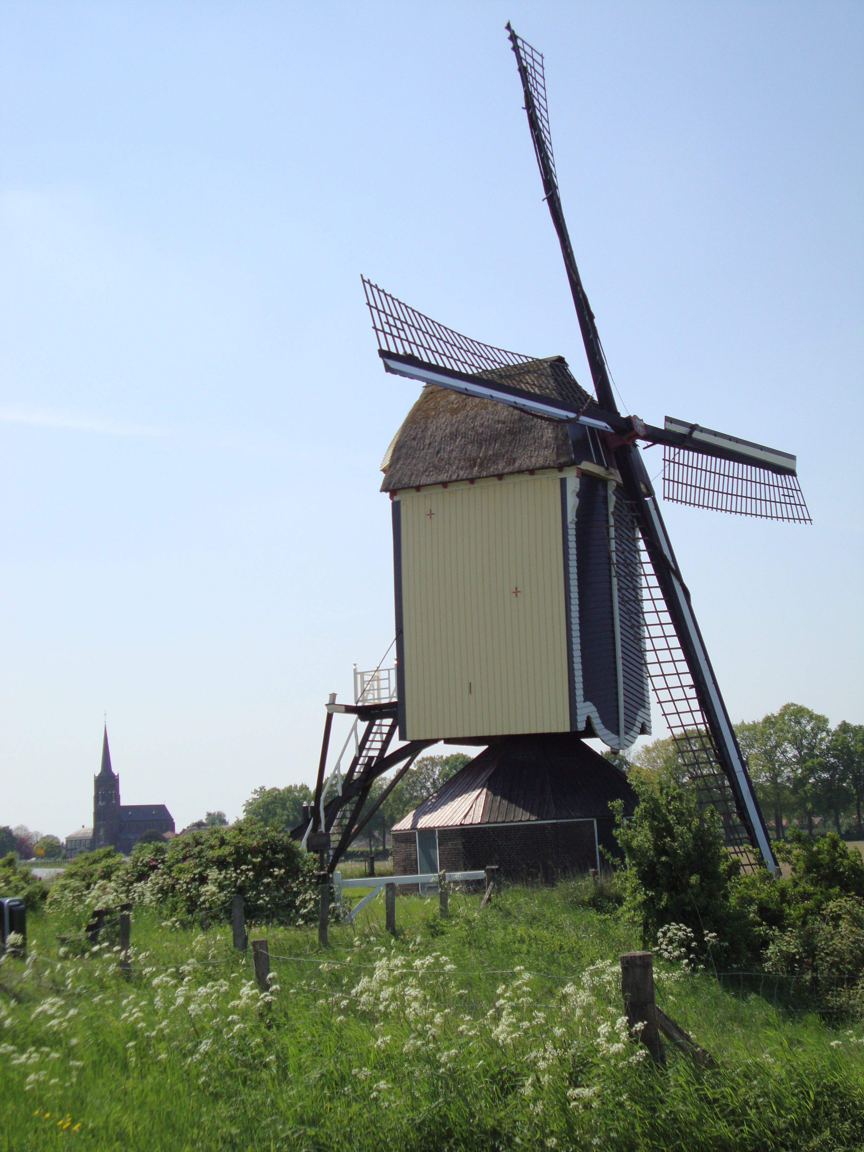 Standerdmolen, Batenburg (Wijchen, Gld, NL) 29″ N, 5° 38′ 19.31″ E